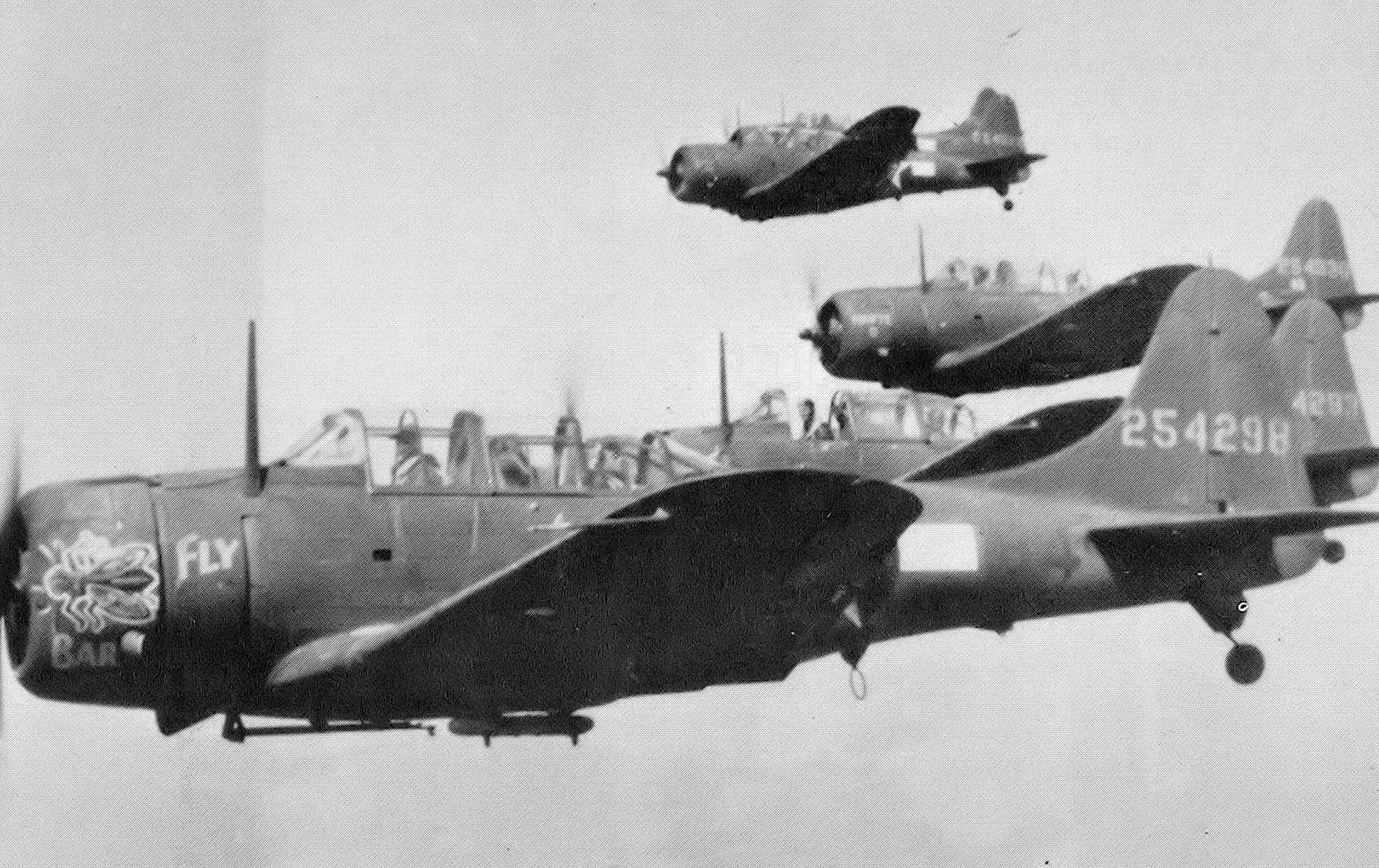 A-24 Banshee dive bombers from the 635th Bombardment Squadron, 407th Bombardment Group flying over the Aleutians carrying out an attack on Kiska Island on August 4, 1943